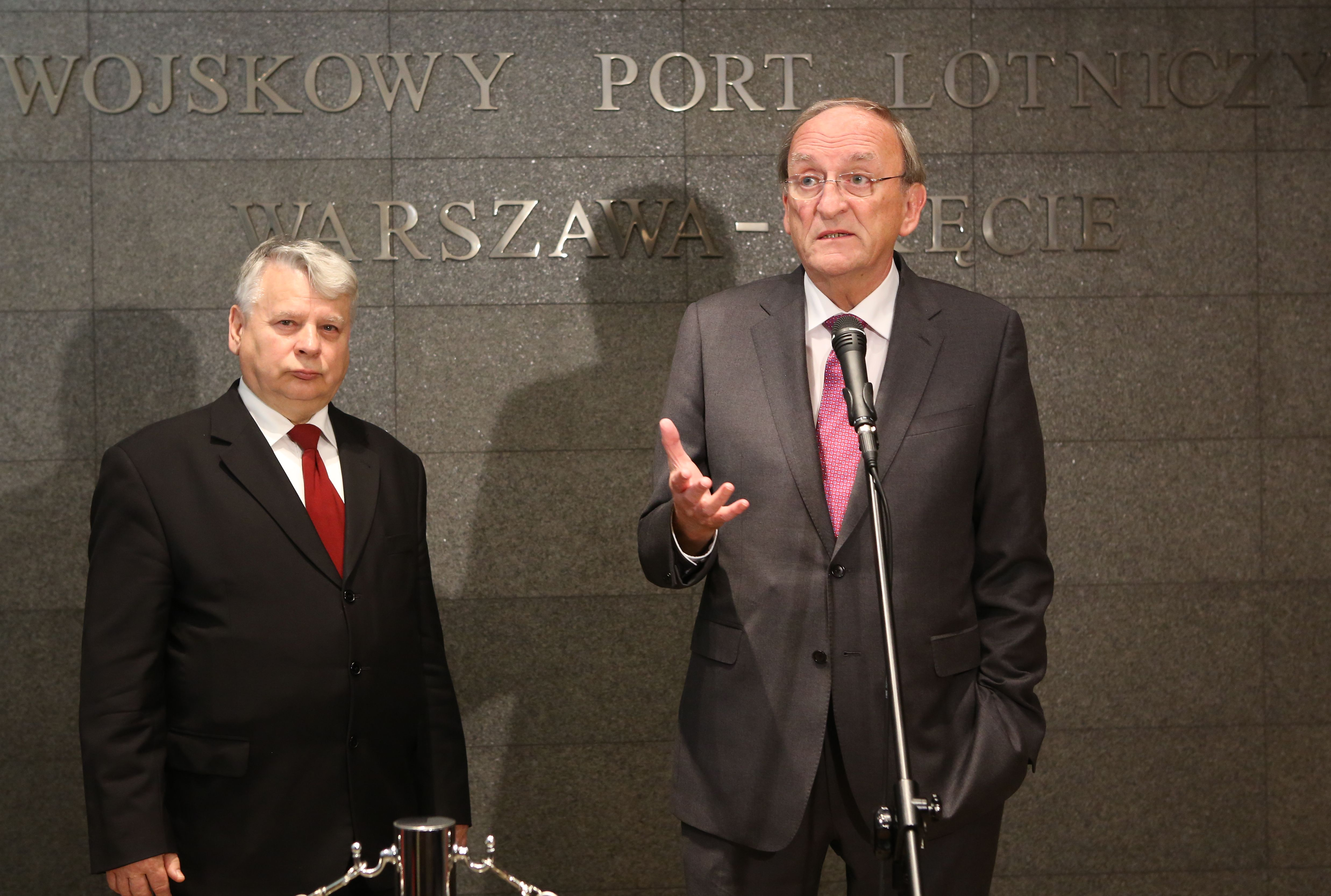 Bogdan Borusewicz and Seán Barrett in Warsaw